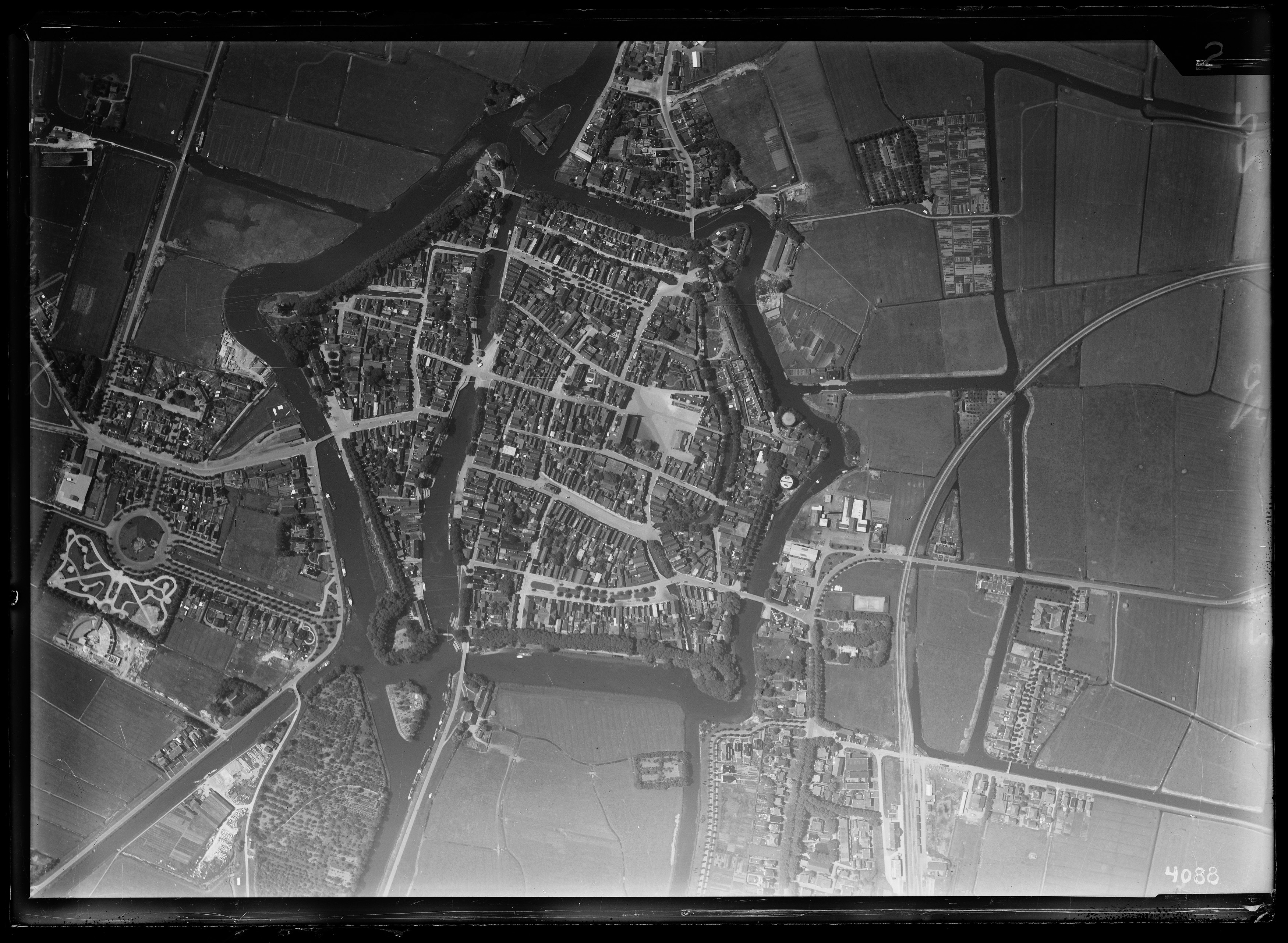 Aerial photograph of Dokkum, The Netherlands